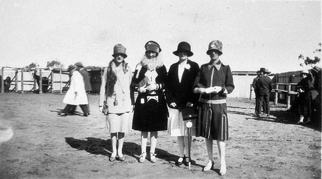 Fashions at Nyngan Picnic races. Gladys Meacle, Mrs T Tighe, Vi Cleaver, Mrs R Fisher. Black and white photo of 4 standing women dressed in late 1920s fashion.